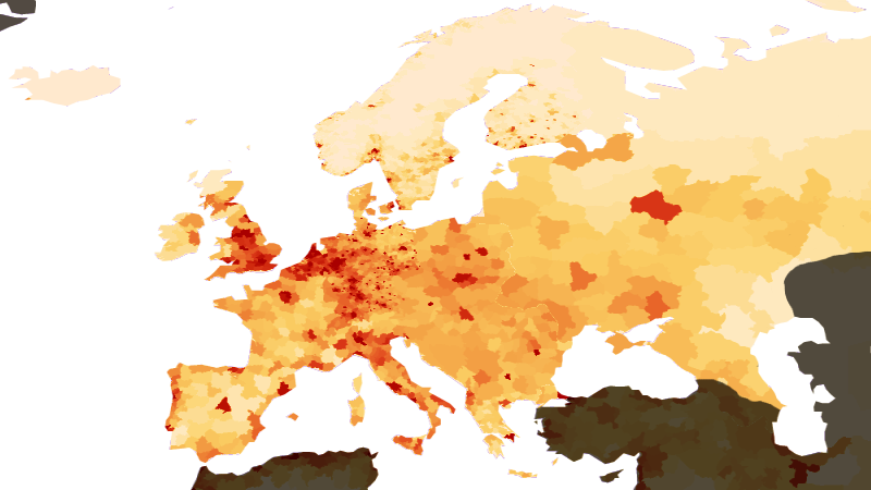 This image shows the number of people per square kilometer in Europe in 1994. The data were derived from population records based on political divisions such as states, provinces, and counties. The source of the image is here.